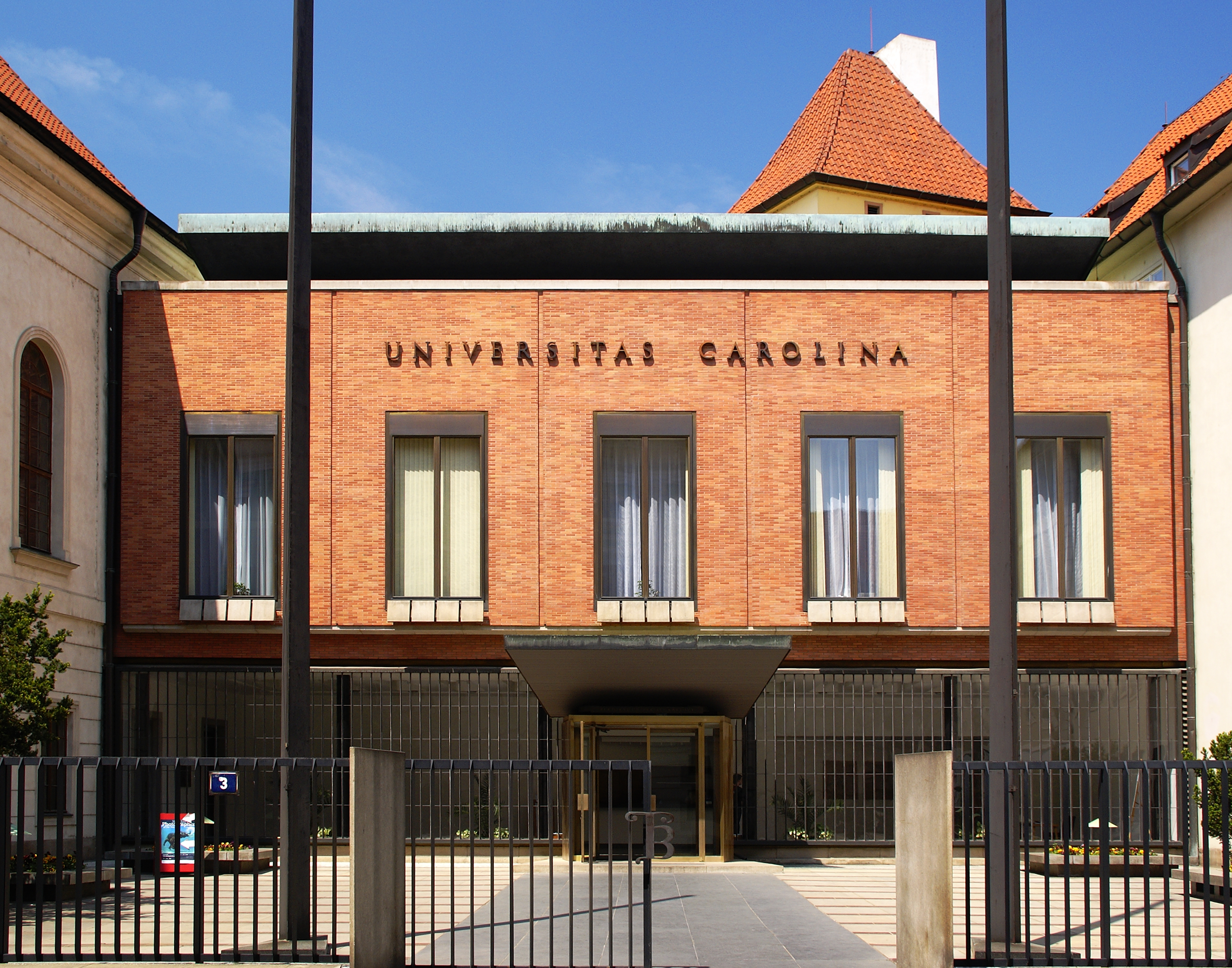 Prague, Charles University - Karolinum